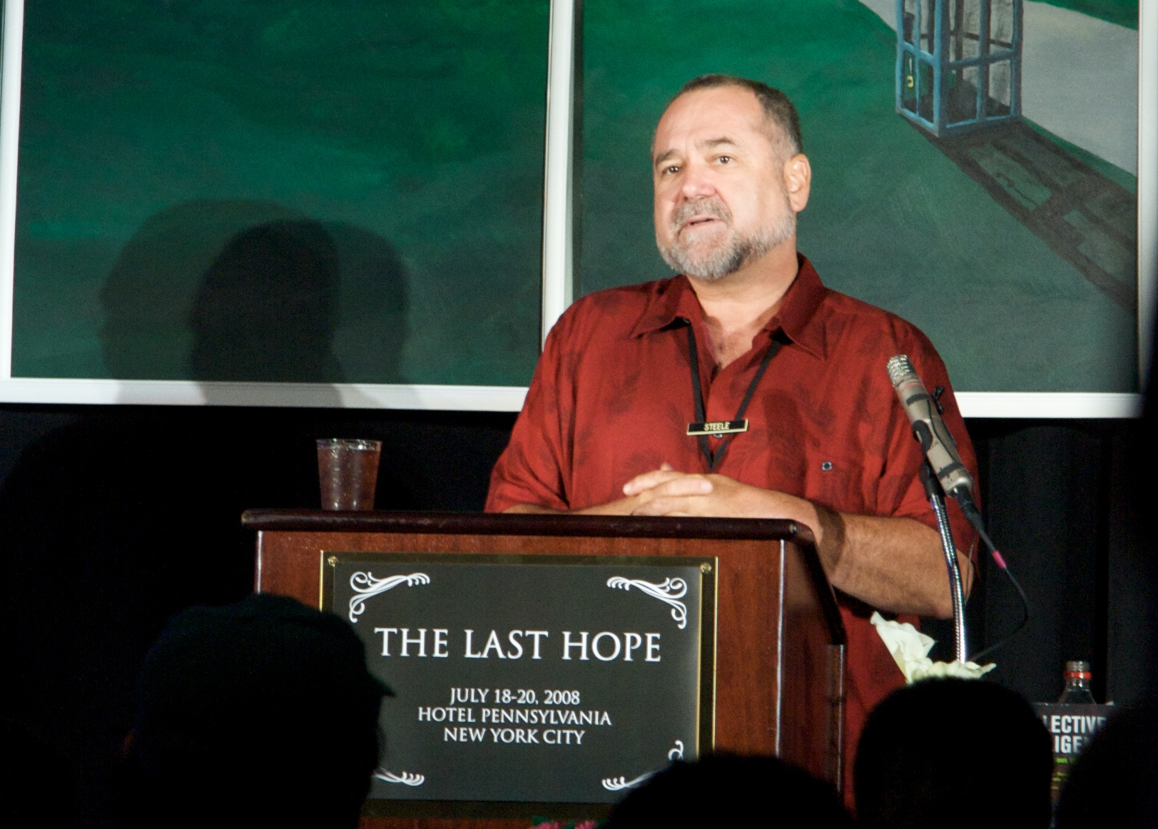 Robert David Steele presents at The Last HOPE July 20, 2008